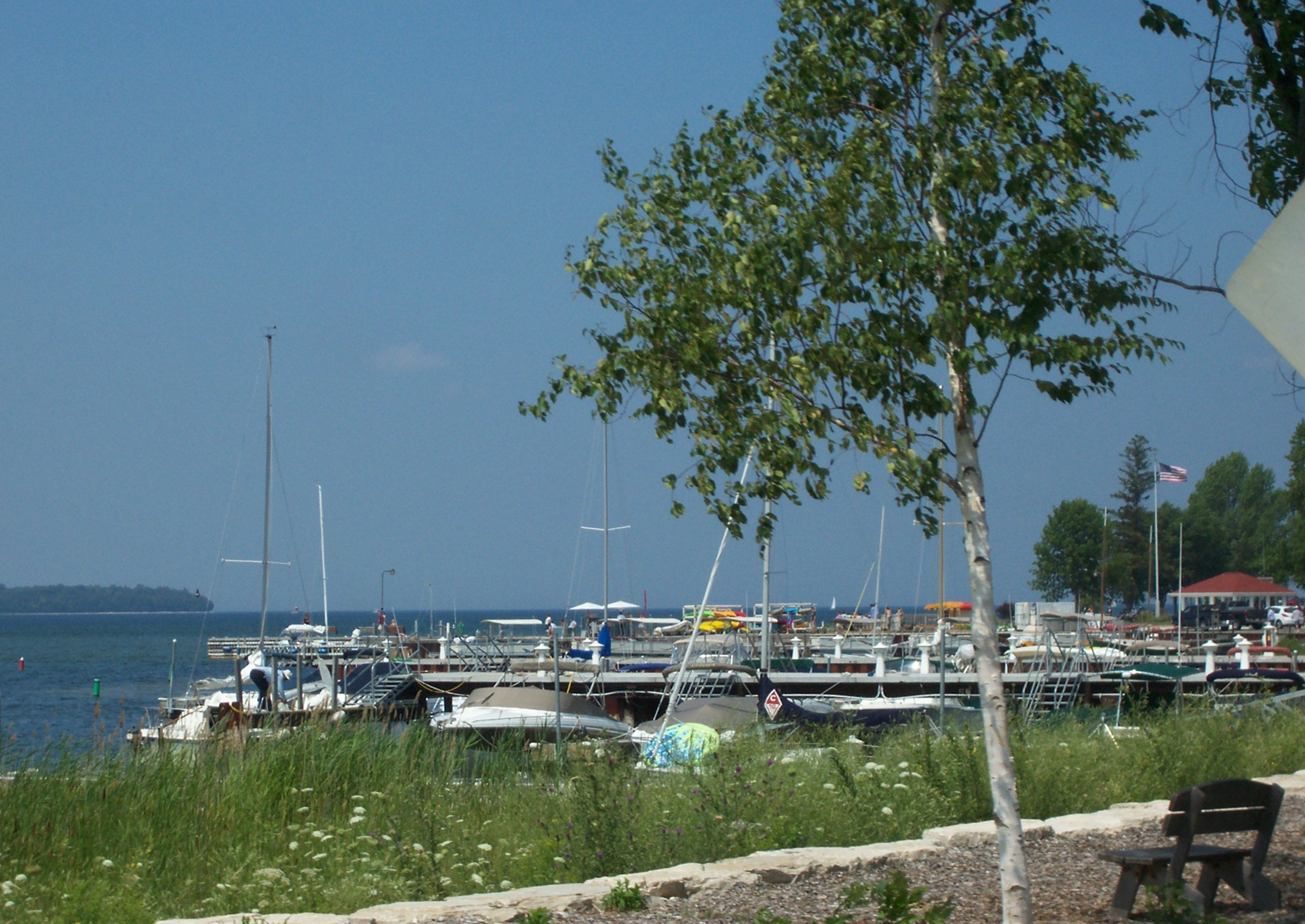 Looking at the harbor for Ephraim, Wisconsin, USA while travelling on Wisconsin Highway 42.